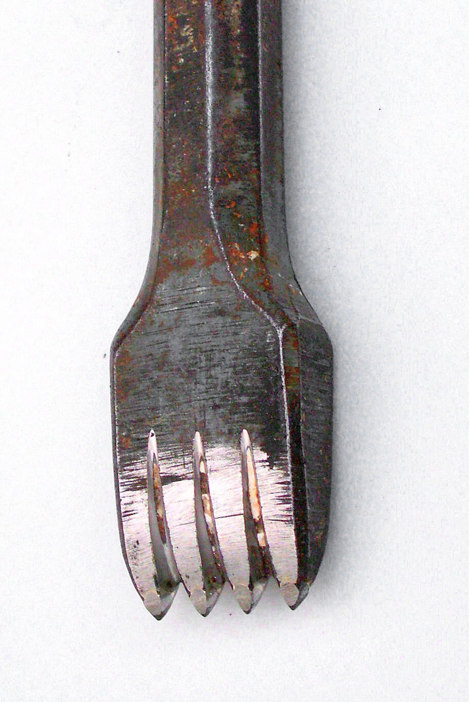 a type of stone chisel with teeth